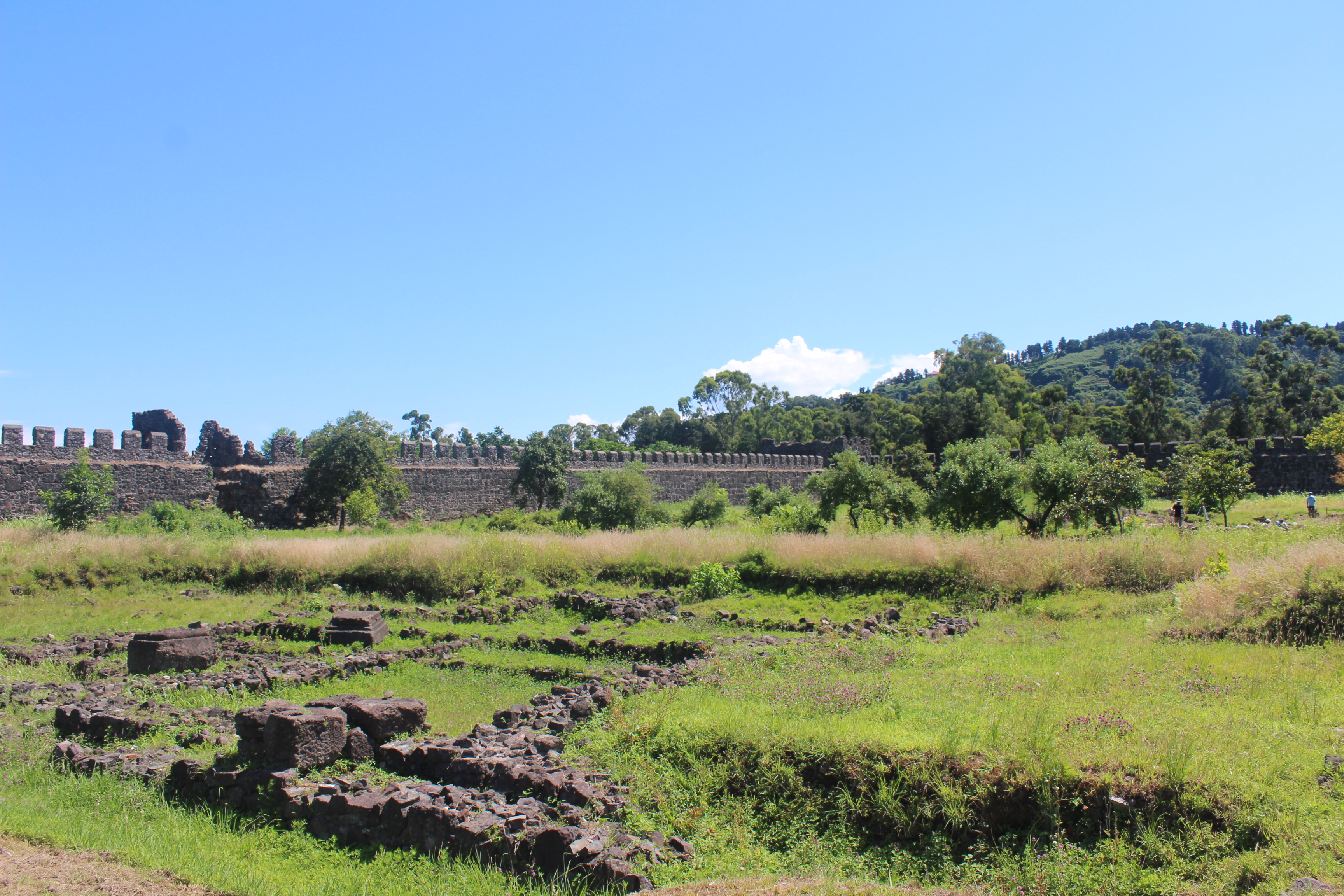 Gonio-Apsaros Fortress-Museum, Georgia